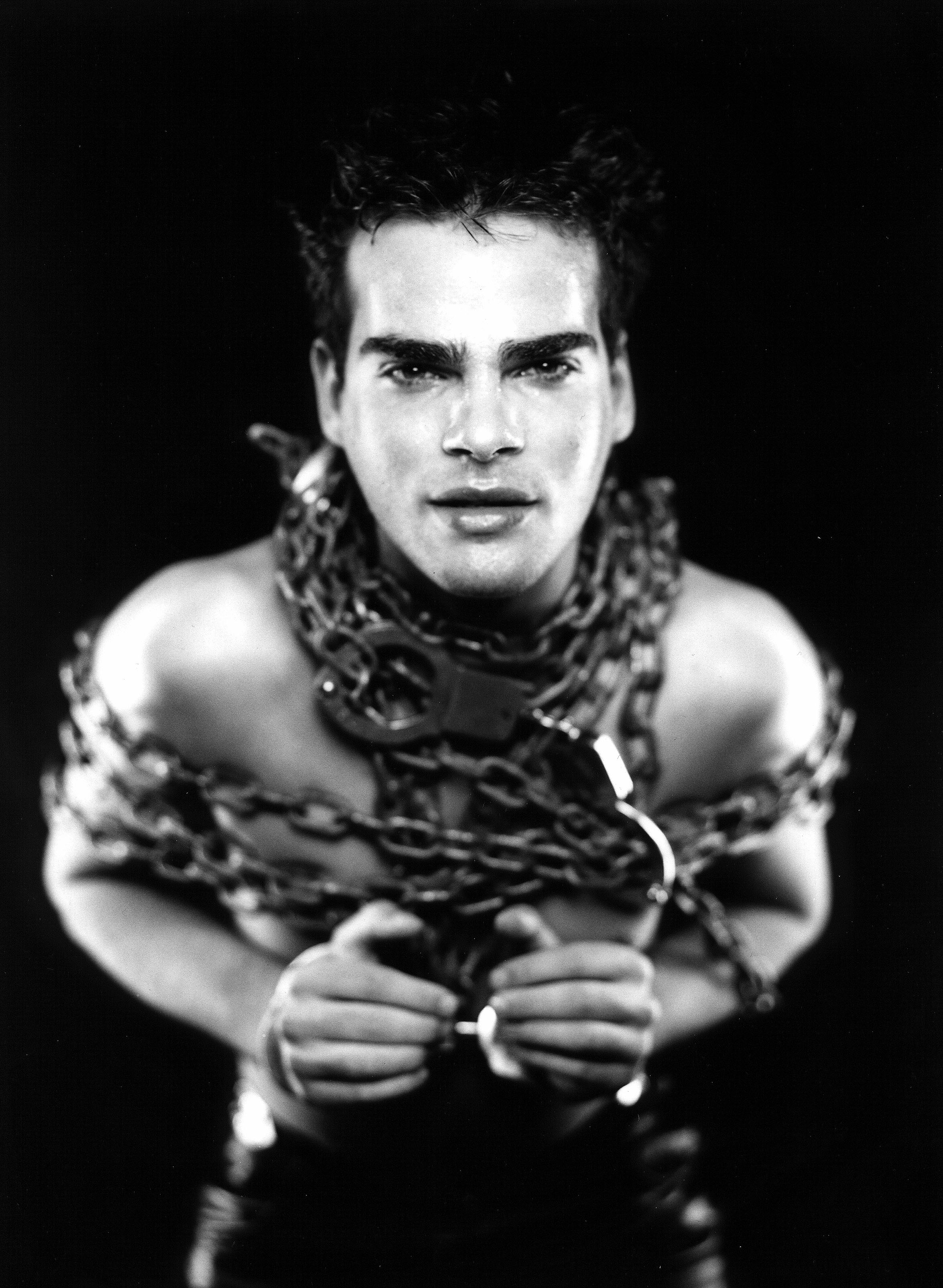 David Merlini escape artist in 1999